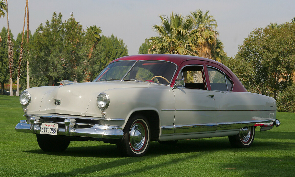 1951 Kaiser.